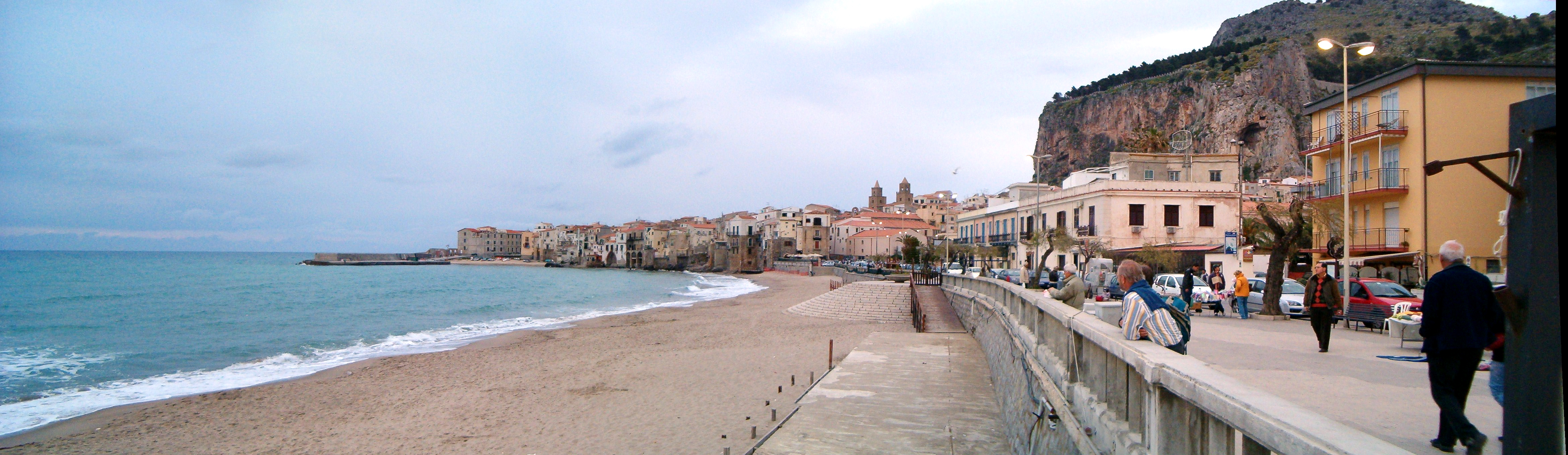 View of Cefalù (Sicily)